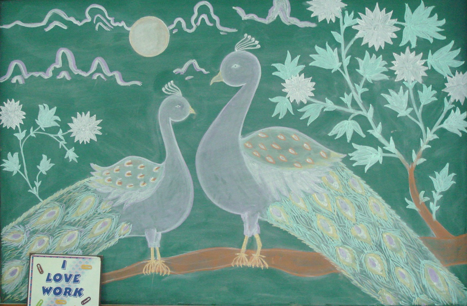 Positive behaviors in students when permitting them to draw on the chalkboard. Motivation is high among students during fun activities using class board.